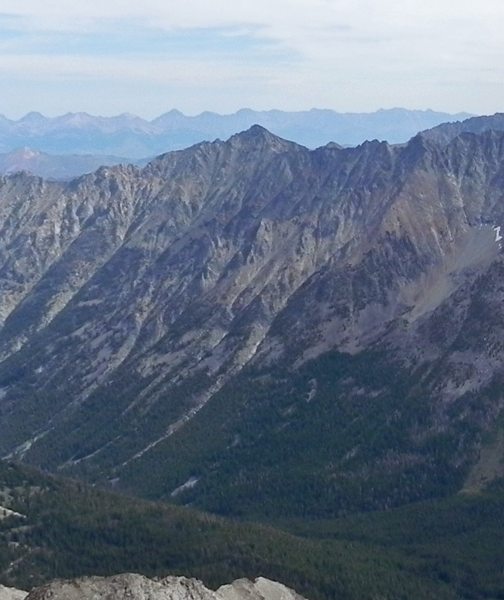 Angel's Perch in center, of the Pioneer Mountains of Idaho. Viewed from the summit of Hyndman Peak, with the Lost River Range in the background.